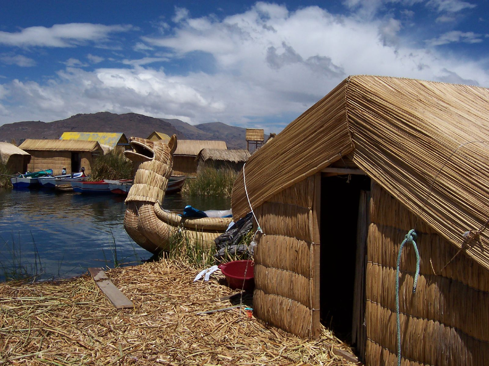 Uros at Lake Titicaca.